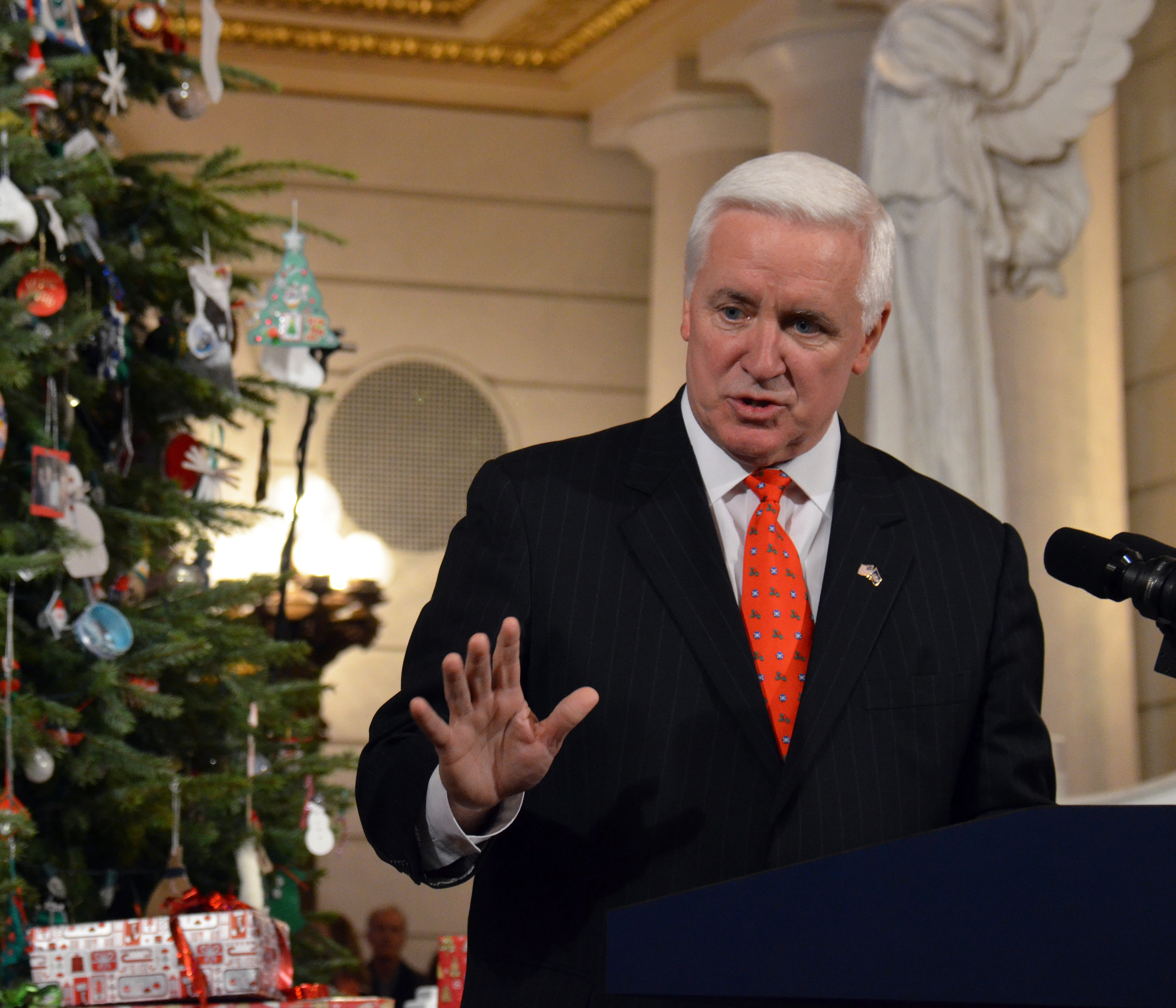 HARRISBURG -- Pennsylvania Governor Tom Corbett and First Lady Susan Corbett were joined by Pennsylvania adjutant general Maj. Gen. Wesley and soldiers and airmen from the Pennsylvania National Guard for the lighting of the Capitol Christmas trees, Dec. 6, 2013. The theme for this year's ceremony, 'Home for the Holidays', recognizes the selflessness displayed by the men and women of Pennsylvania's armed forces and those members of the military who recently returned home to spend the holiday with their loved ones. (Pennsylvania National Guard photo by Staff Sgt. Ted Nichols/Released)